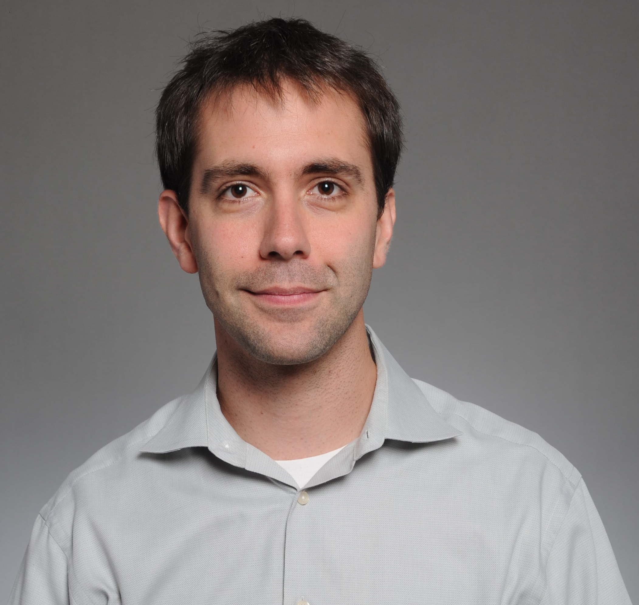 Academic portrait, Dr. Jacob Hooker